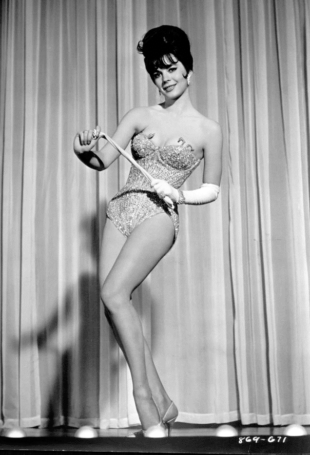 Publicity photo of Natalie Wood in the American musical film Gypsy (1962).